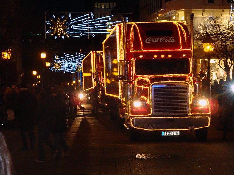 Coca-Cola-Truck - Freightliner